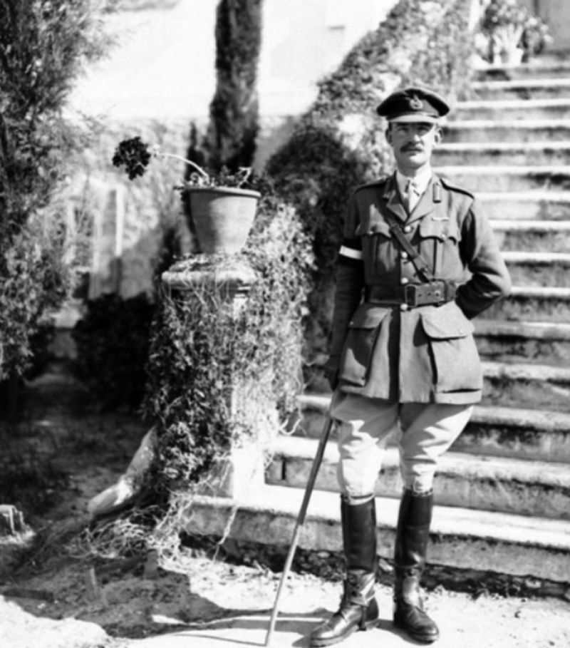 Brigadier General Richard Howard-Vyse 1918